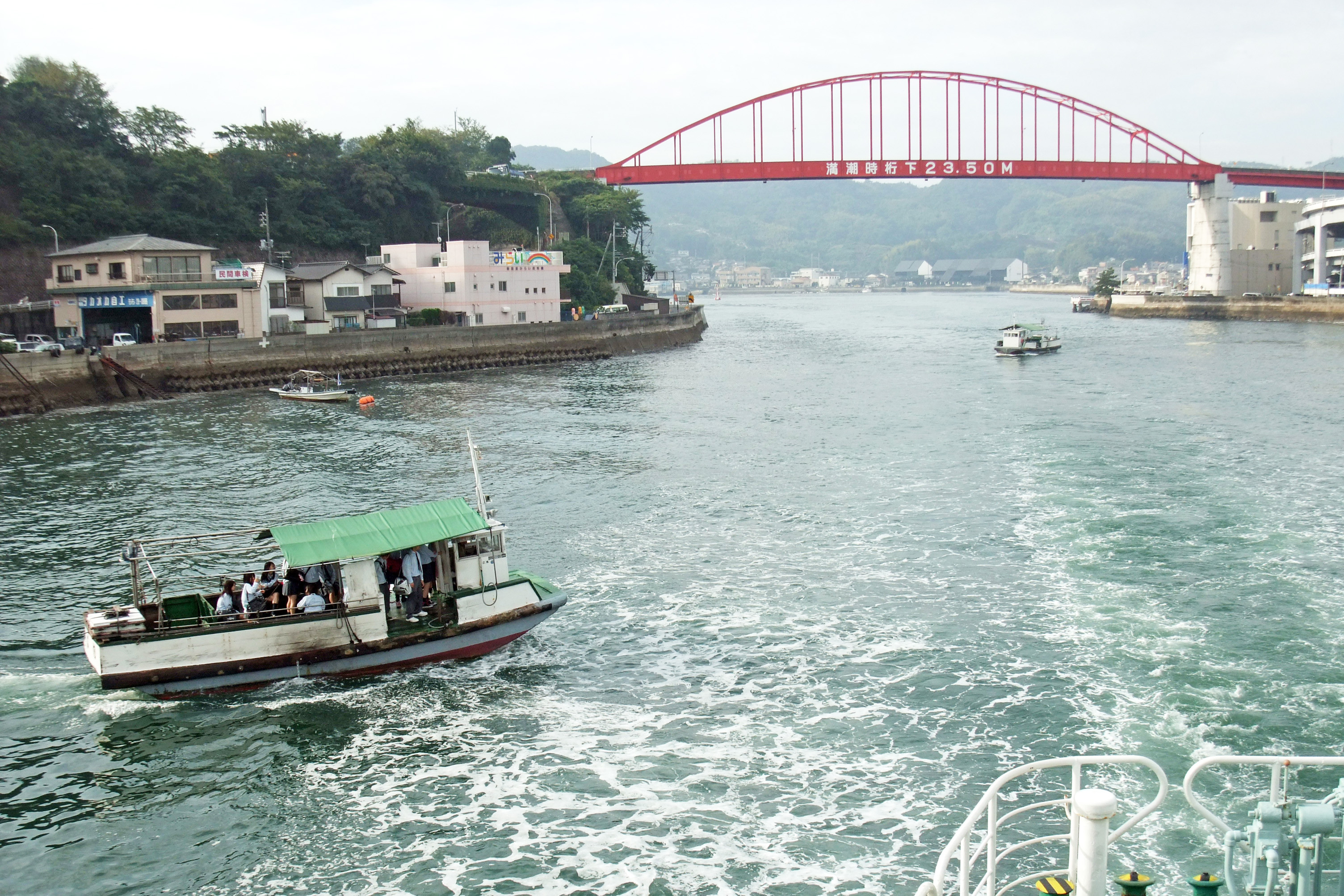 Ondo Ohashi and passing boat of Ondo in Hiroshima Prefecture Kure City.